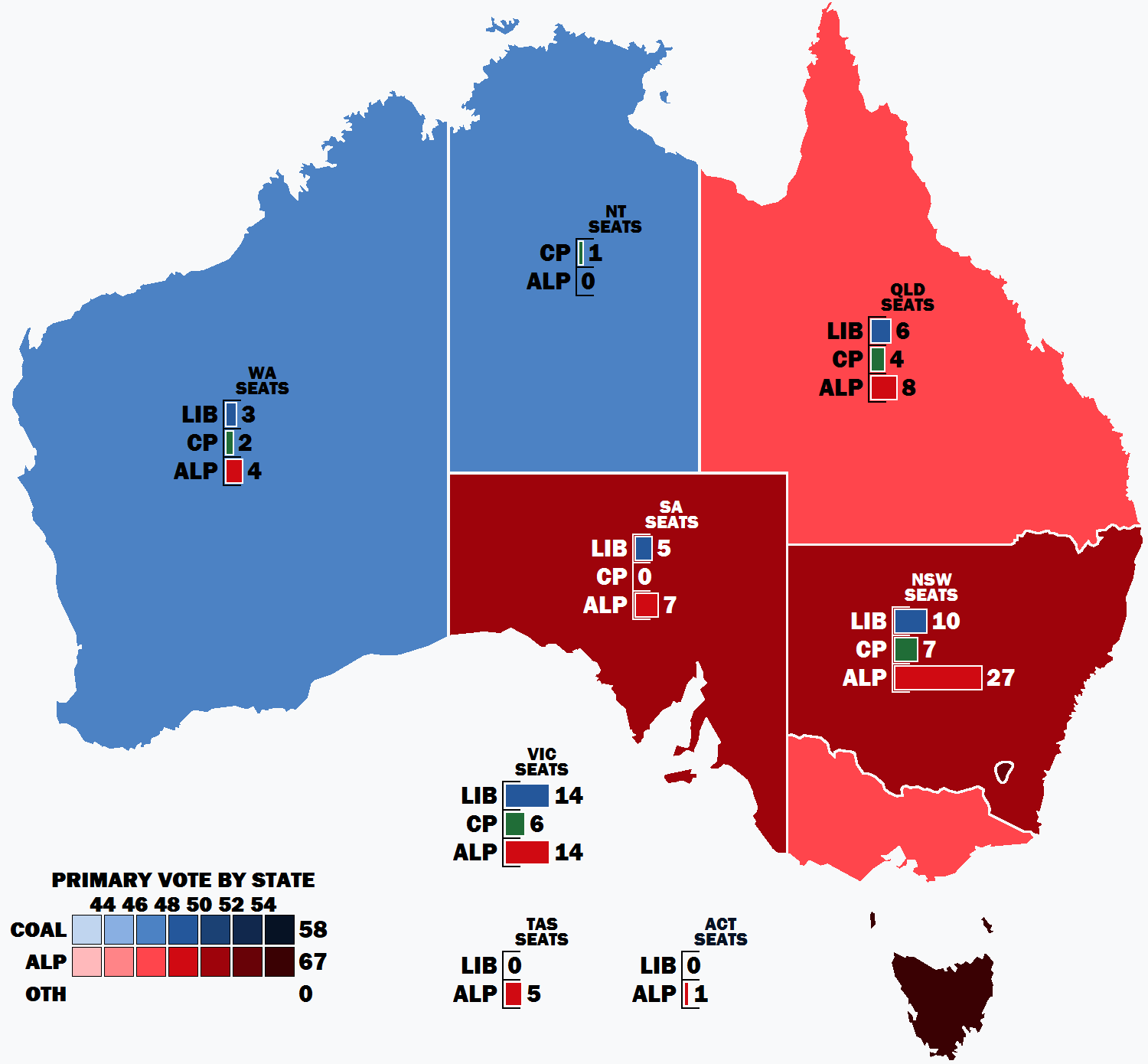 Result of the primary vote by state and territory in the 1972 Australian federal election.